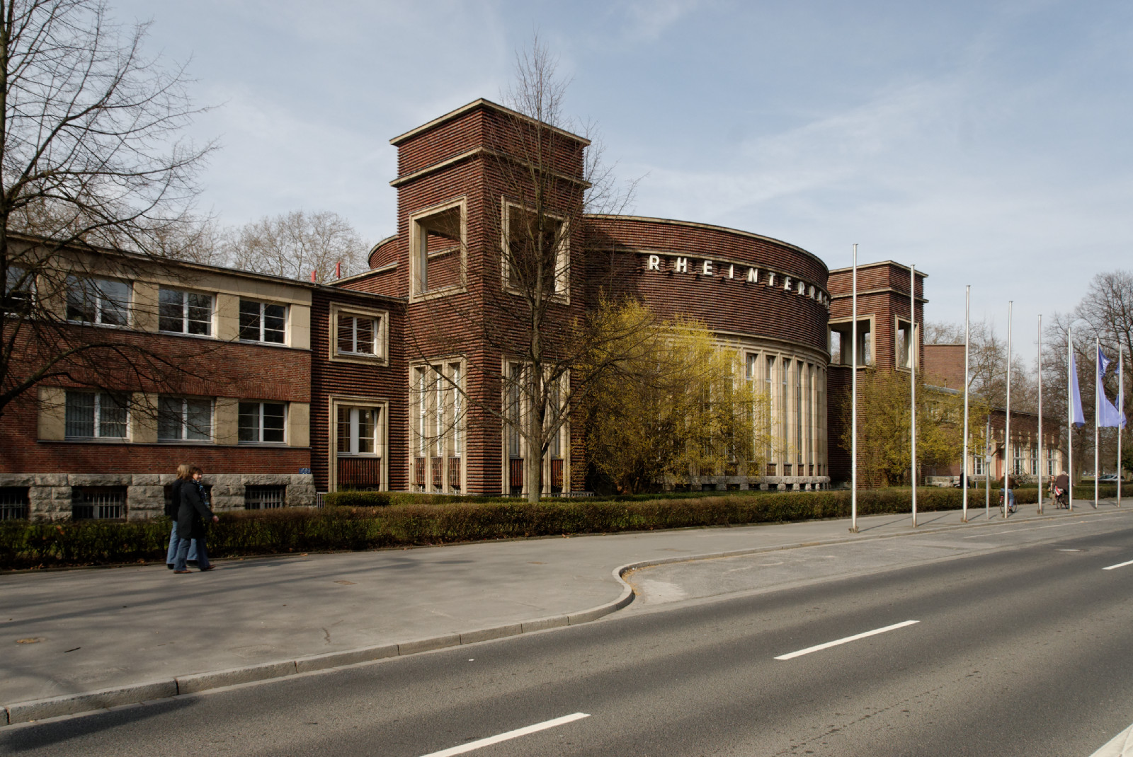 Rheinterrasse in Düsseldorf-Pempelfort, Germany